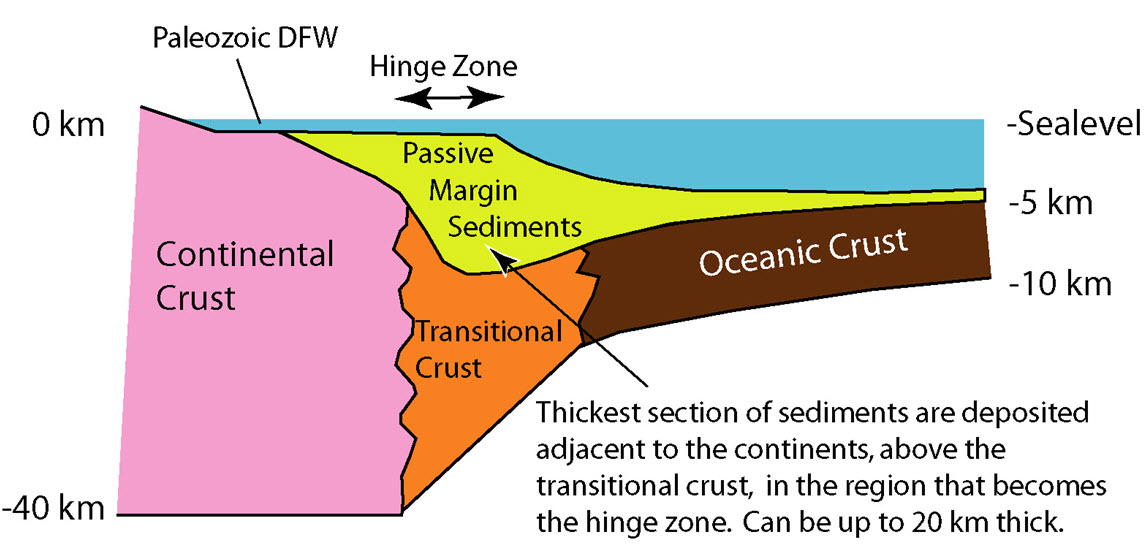 Passive Contiental Margin